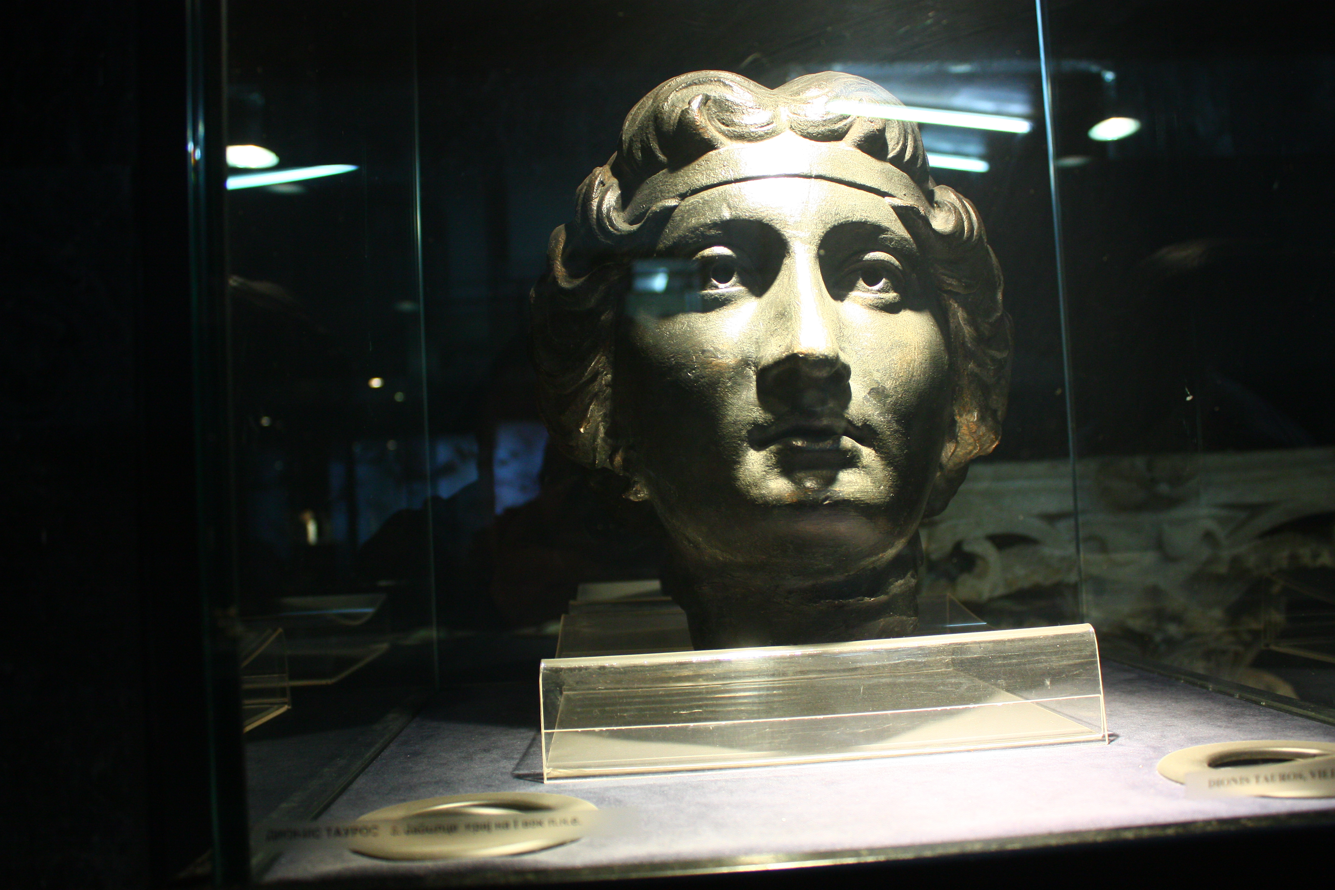 An artefact in the Archaeological section of the Museum of Skopje, Macedonia